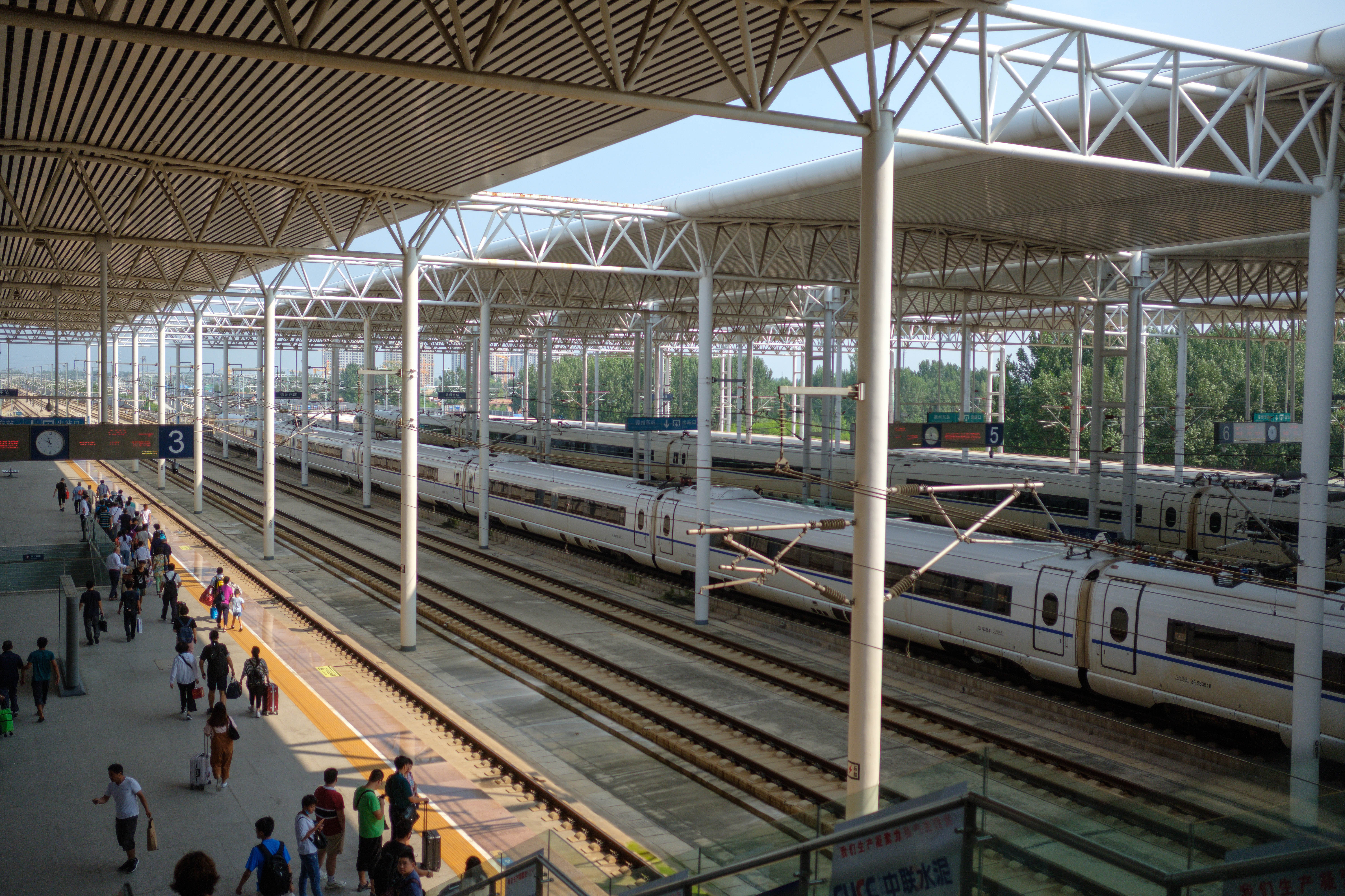 Dezhoudong Station